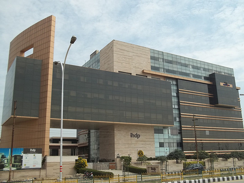 IT Park